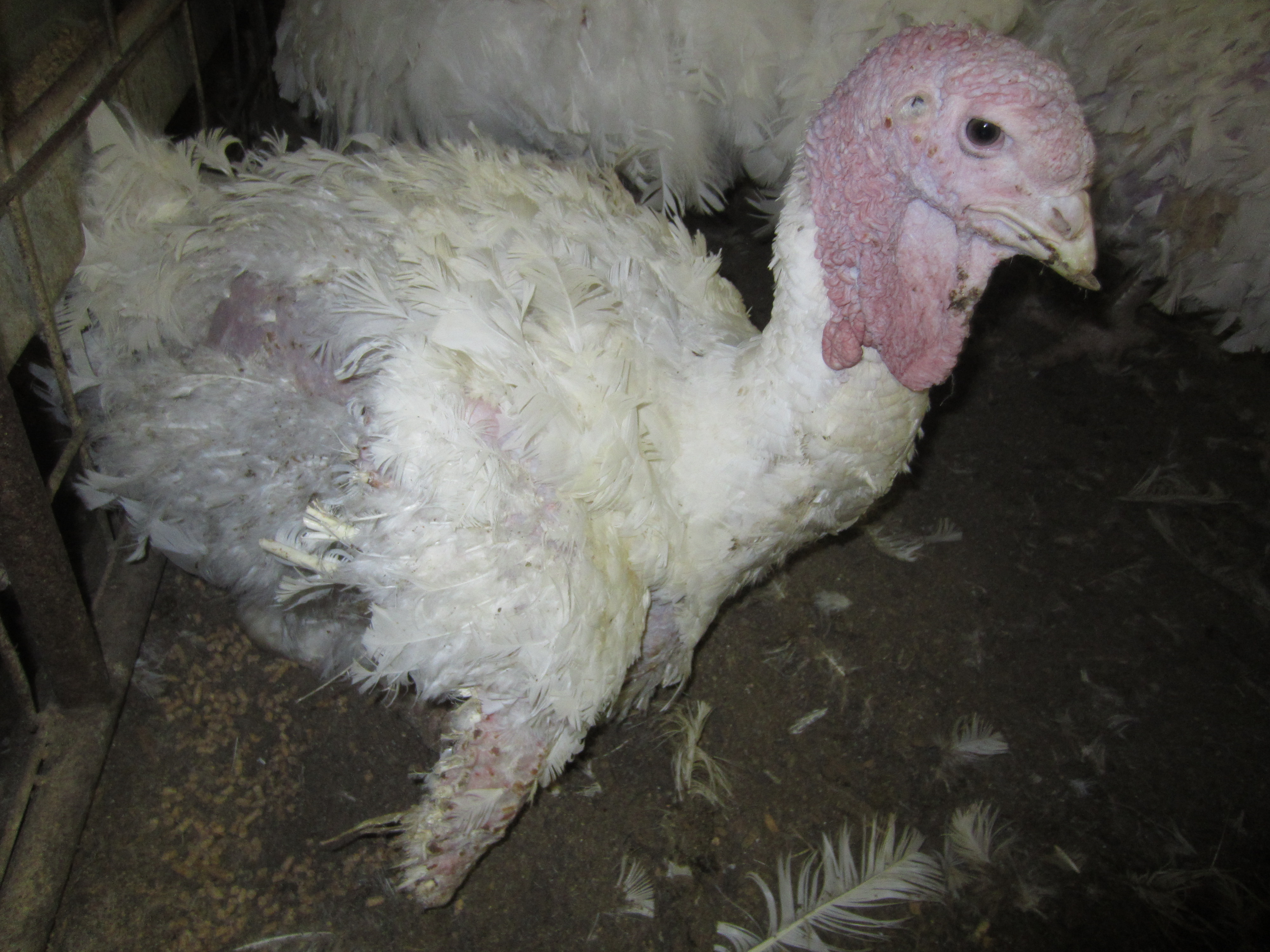 Picture revealing animal cruelty and neglect of turkeys taken during an undercover investigation at a Butterball farm in North Carolina. Photo taken by Mercy for Animals.